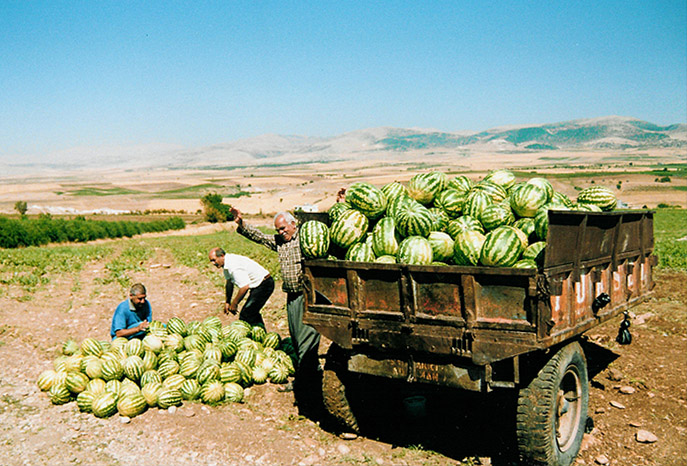 Eastern Anatolia - Turkey, 2002